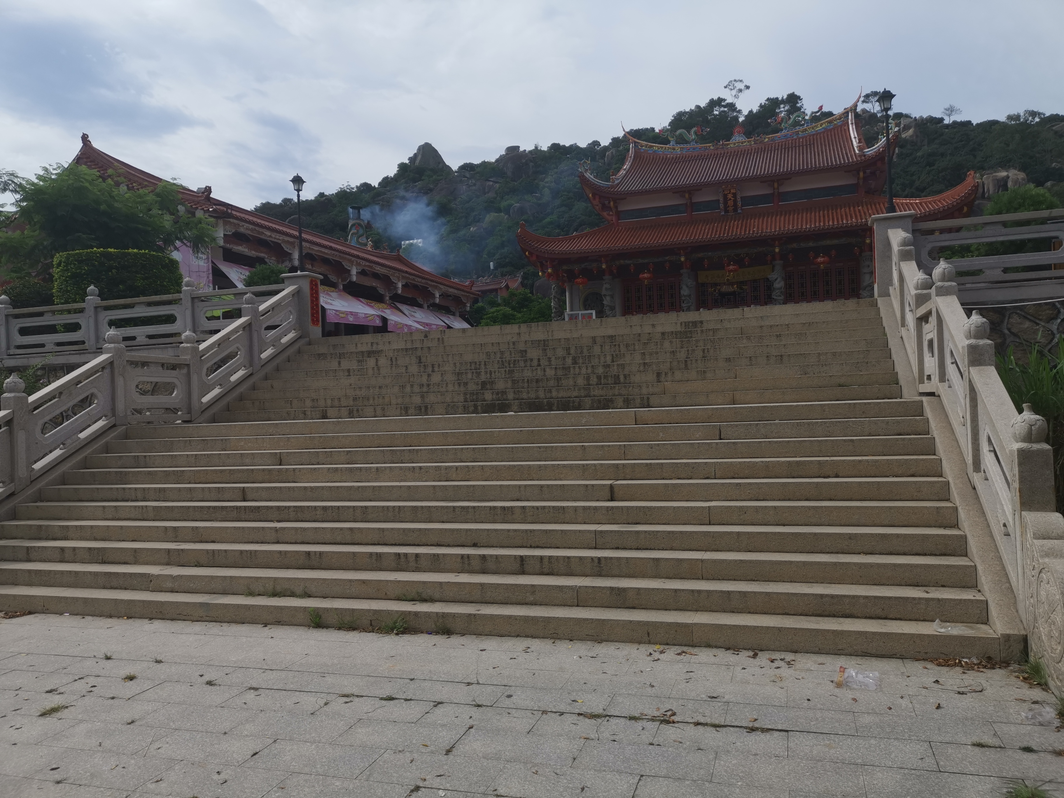 Wushi Tianhou Palace, JiuZhen, Zhangpu, Zhnagzhou, Fujian, China